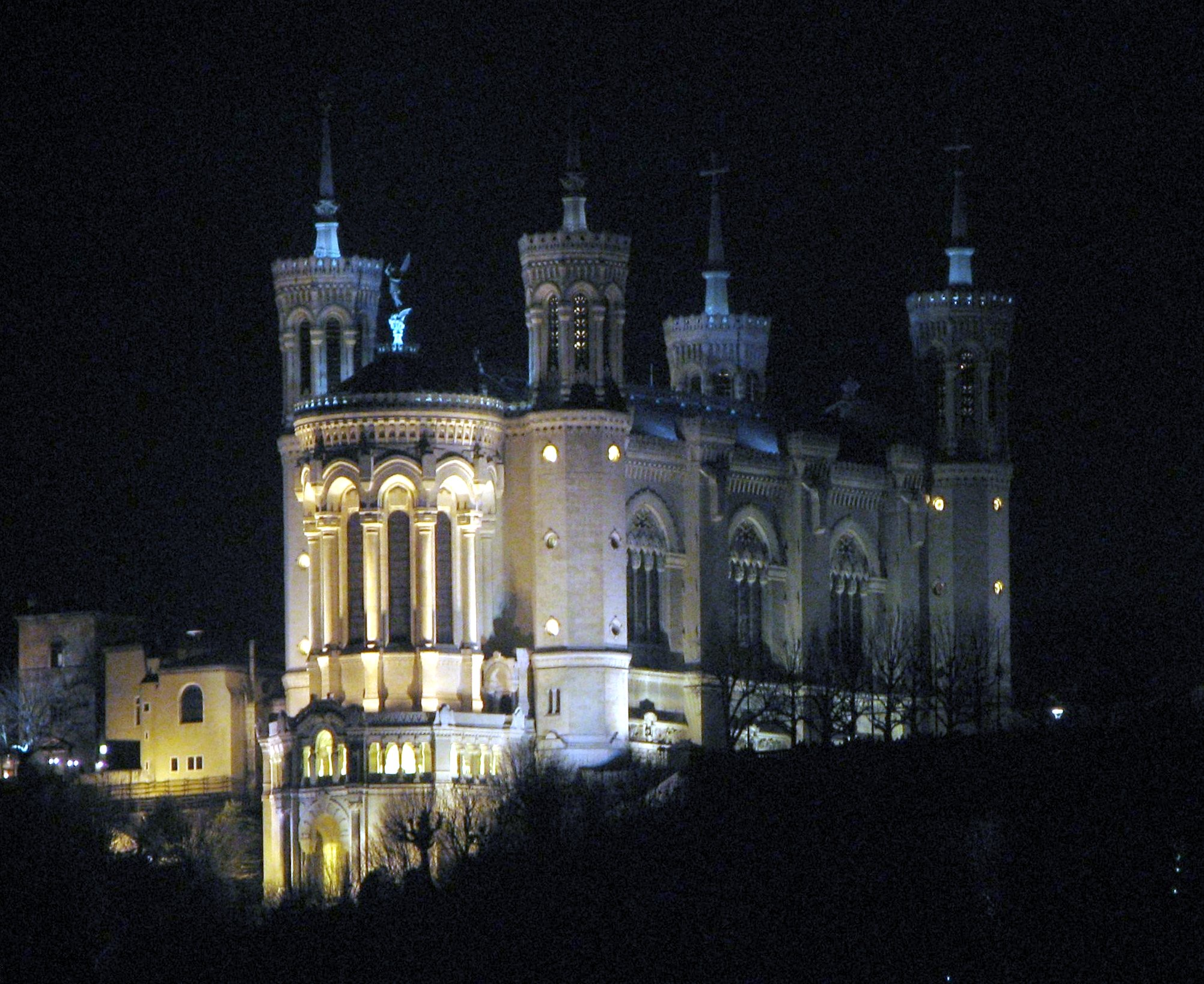 Basilica Notre-Dame de Fourvière as seen from the top of the opera house at night, 12x zoom.